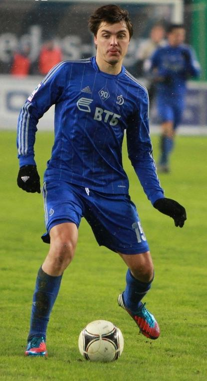 Alexandru Epureanu playing for FC Dynamo Moscow in 2013.